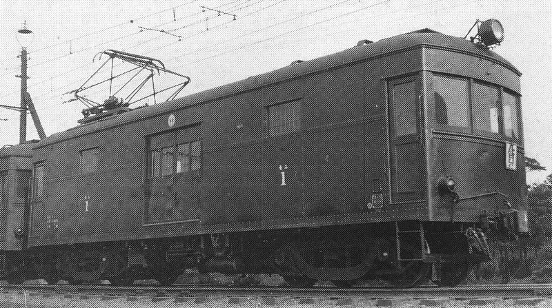 Odawara Express Railway No.1,EMU Type Moni-1